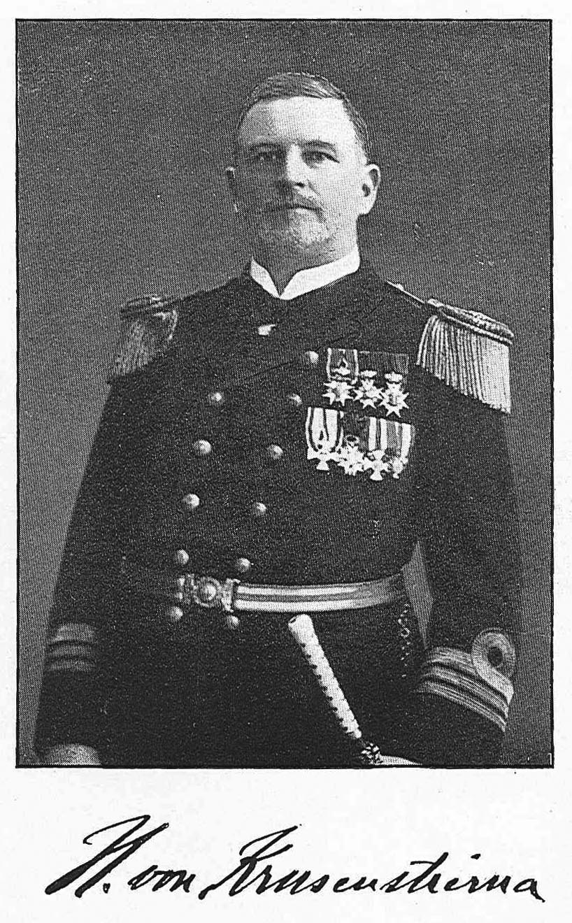 Henning von Krusenstierna (1862-1933), Swedish nobleman, naval officer and sjöminister (minister of naval defence) 1910-1911.